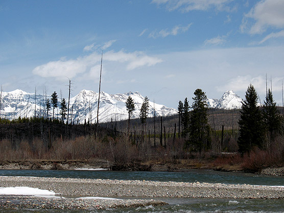 North Fork Flathead River near Glacier National Park, Montana